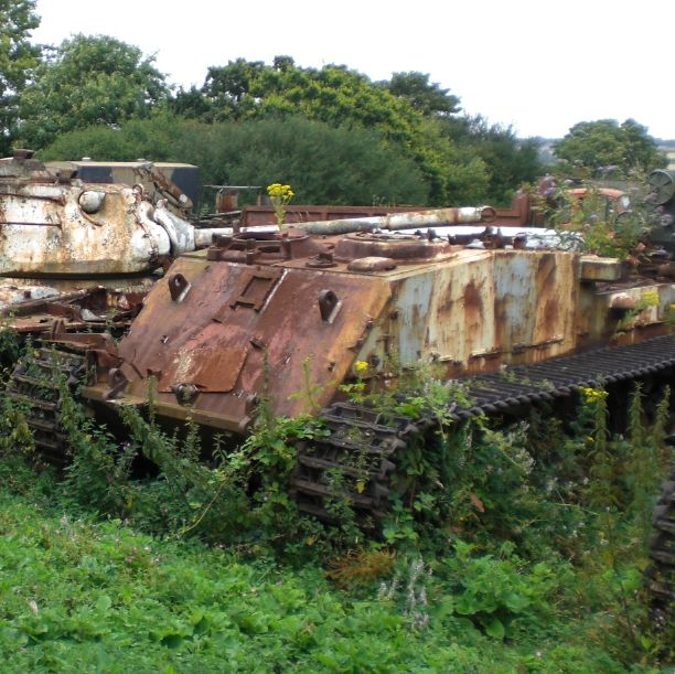 IOW Military History Museum